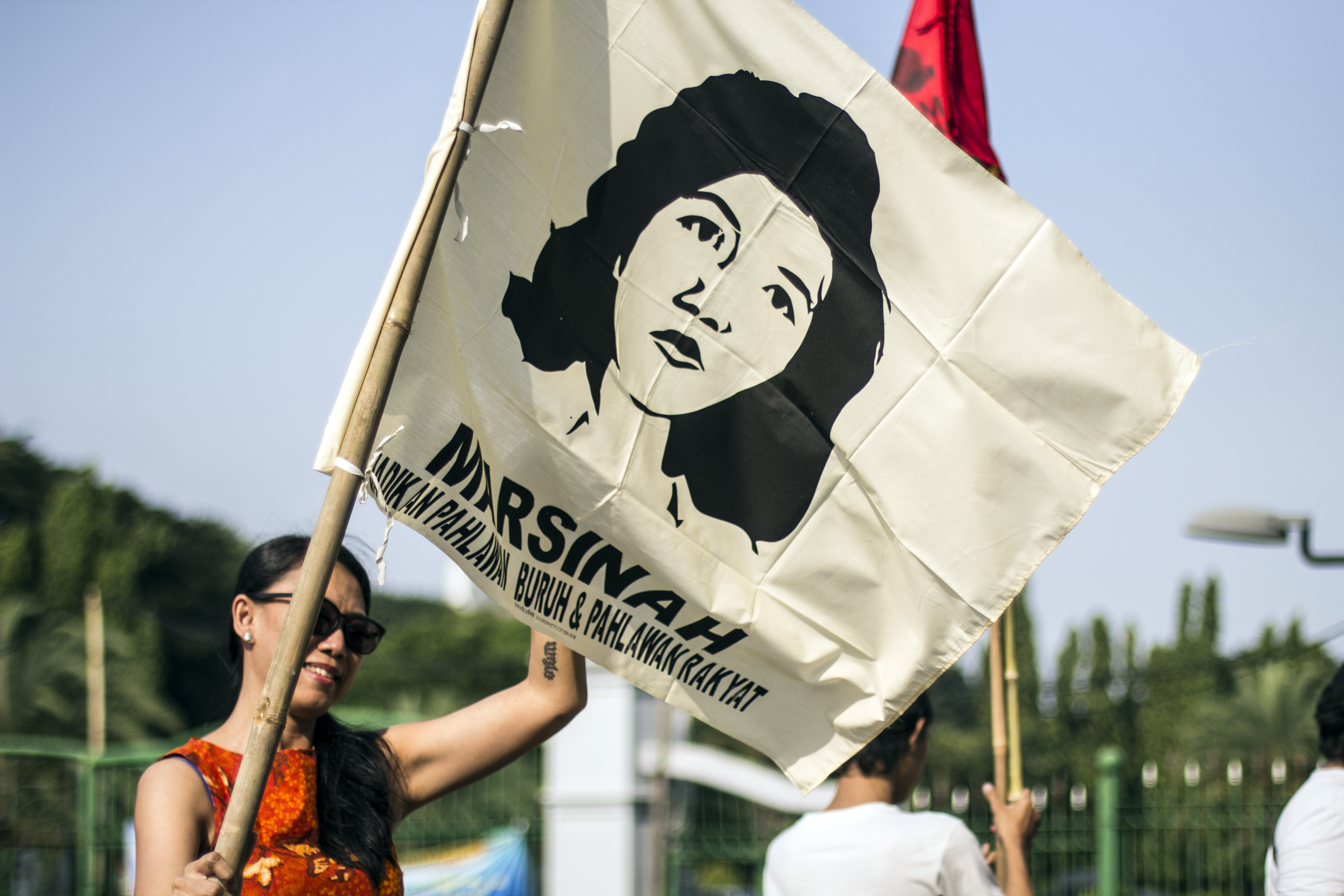 On the 25th anniversary of the murder of trade unionist Marsinah a demonstrator waves a flag with the caption "workers' hero and people's hero." The demonstration called for a proper investigation into Marsinah's murder, believed to have been carried out by the military, but unsolved to this day.